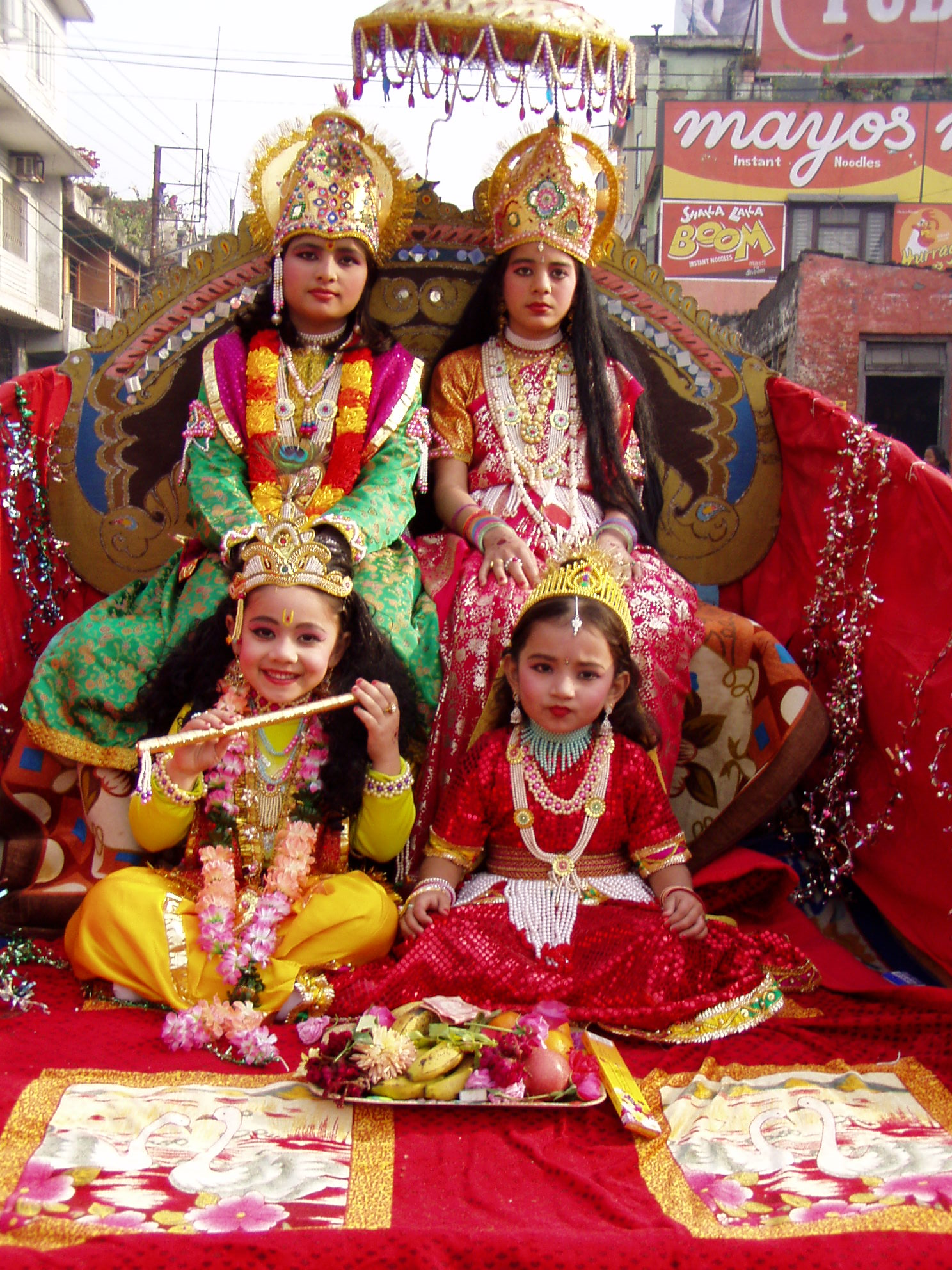 Costumed Hindu-girls in Nepal. The two small children represent the god Krishna and his consort Goddess Radha. Sitting behind are the god Vishnu and his consort Goddess Laxmi